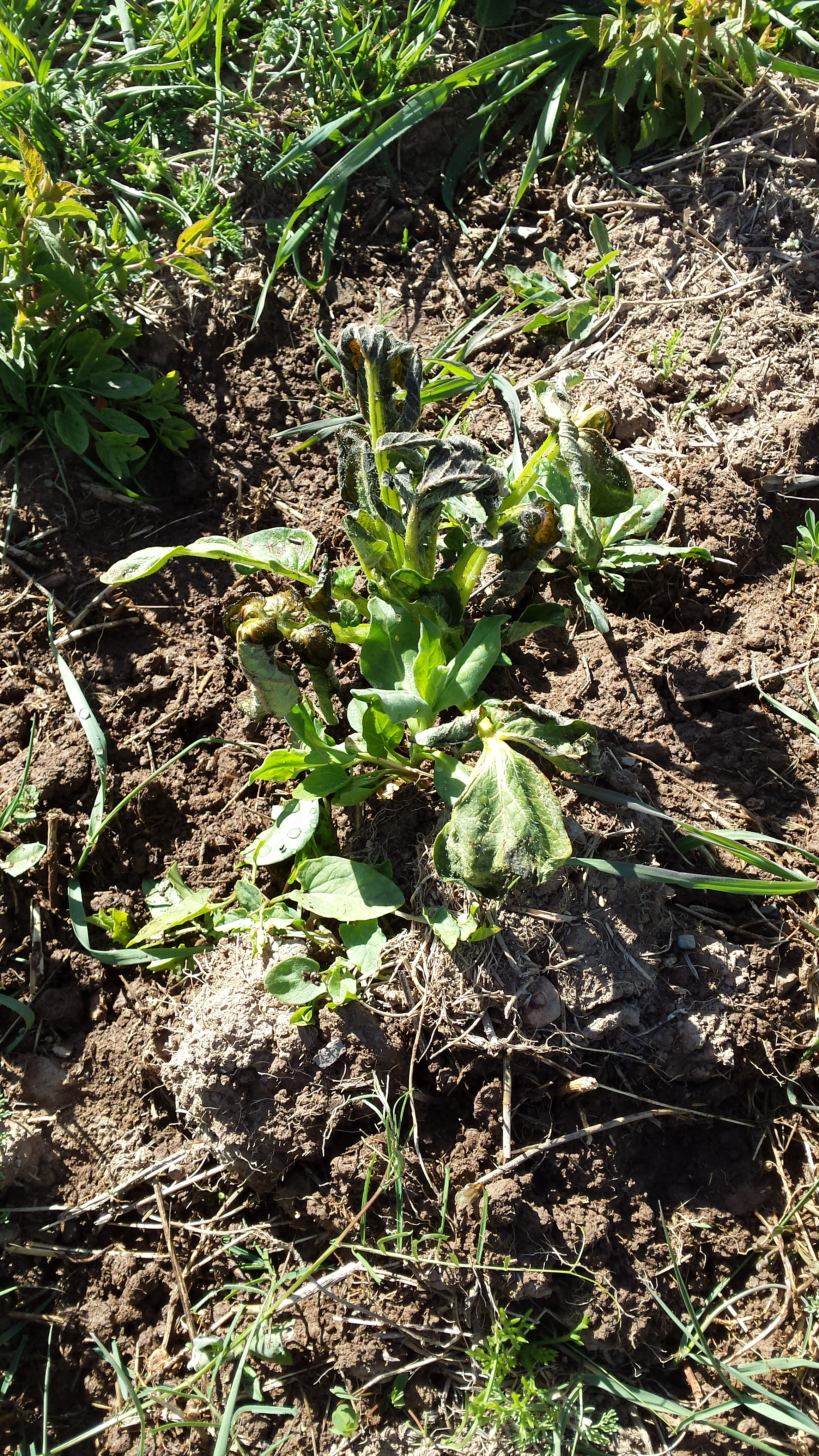 Frost in potato plant, Castelltallat, Catalonia